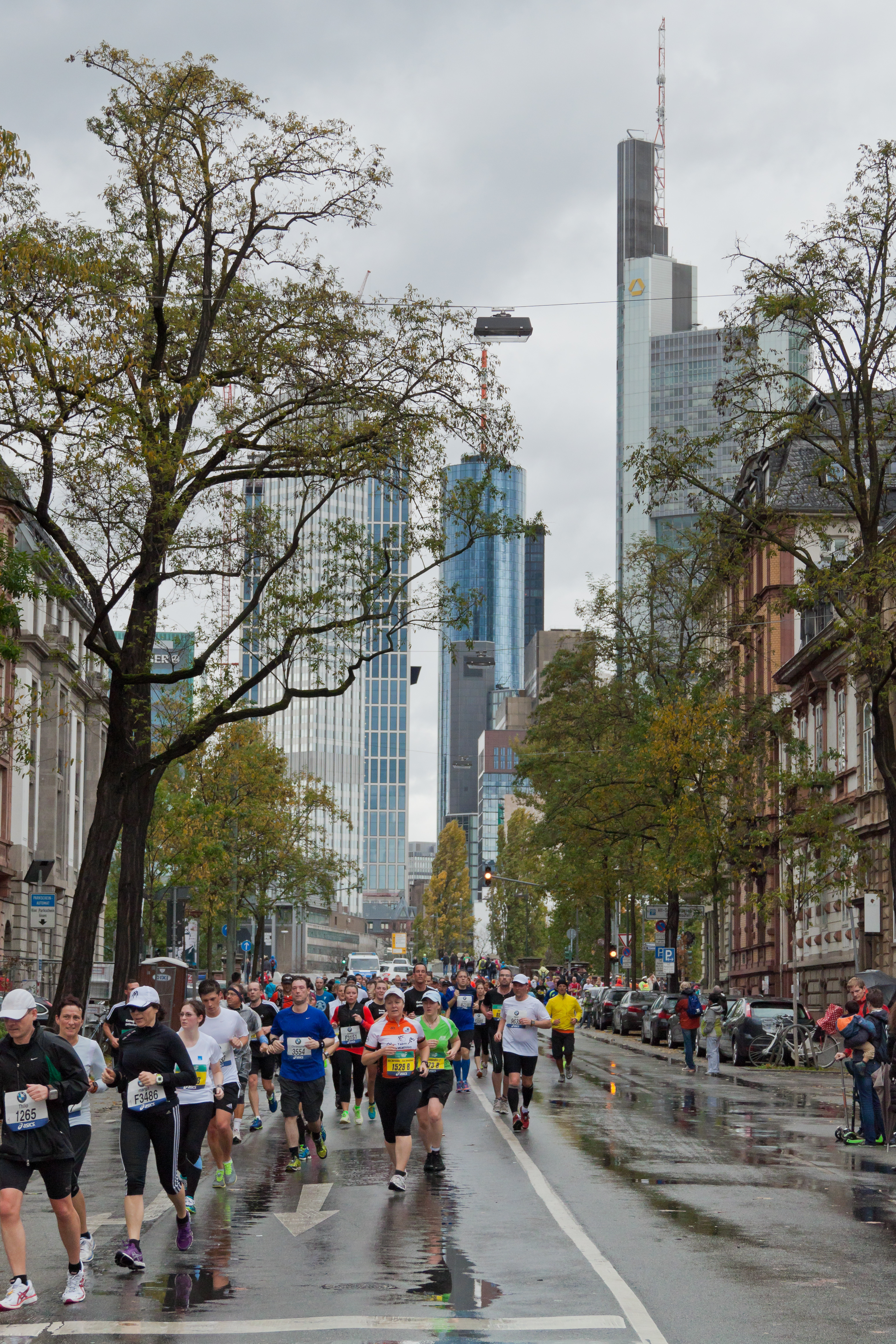 BMW Frankfurt Marathon, 14.5 km, 1h45min after the start.